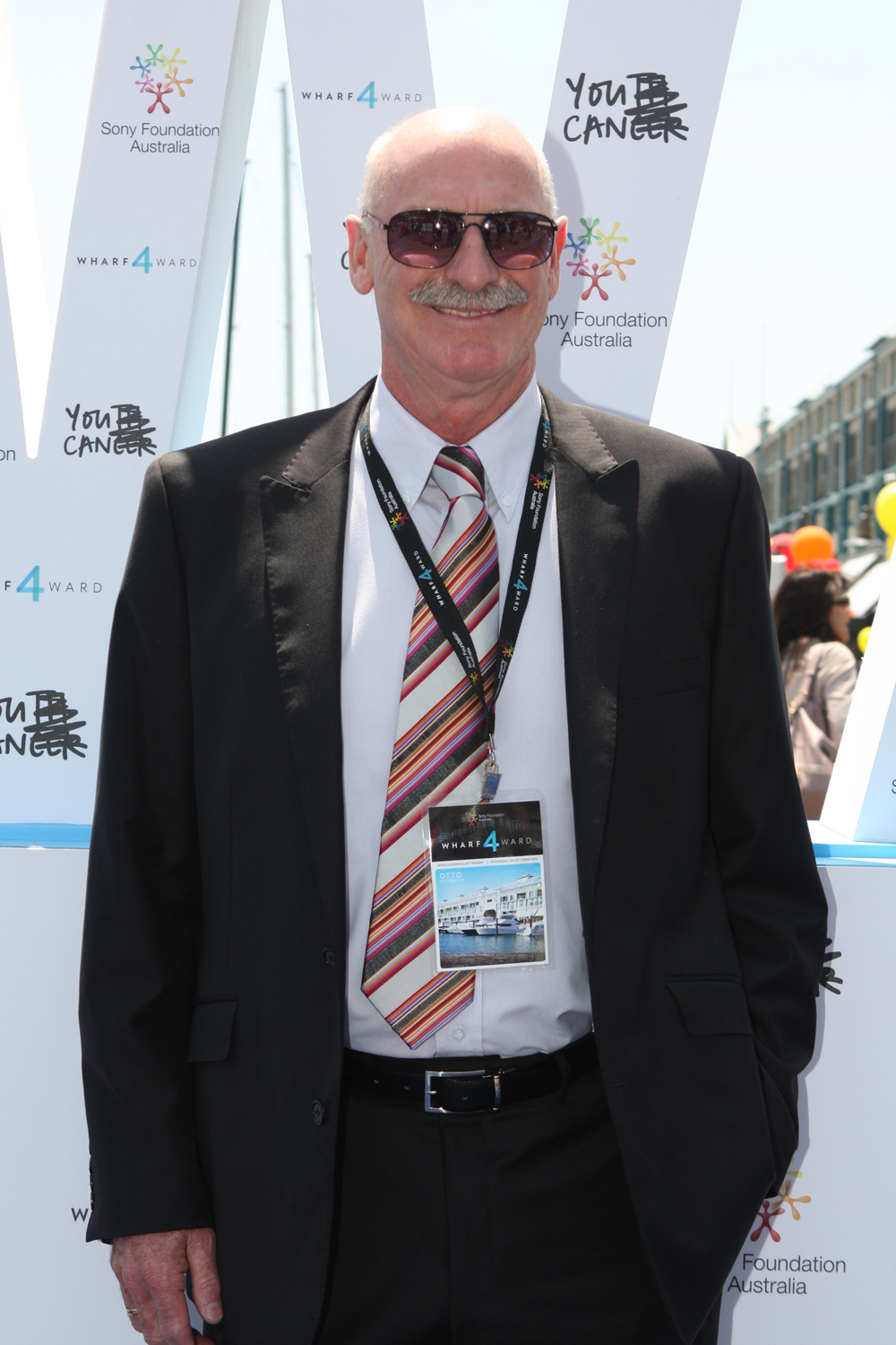 Sydney stars come out in force for Sony Foundation's Youth Cancer campaign